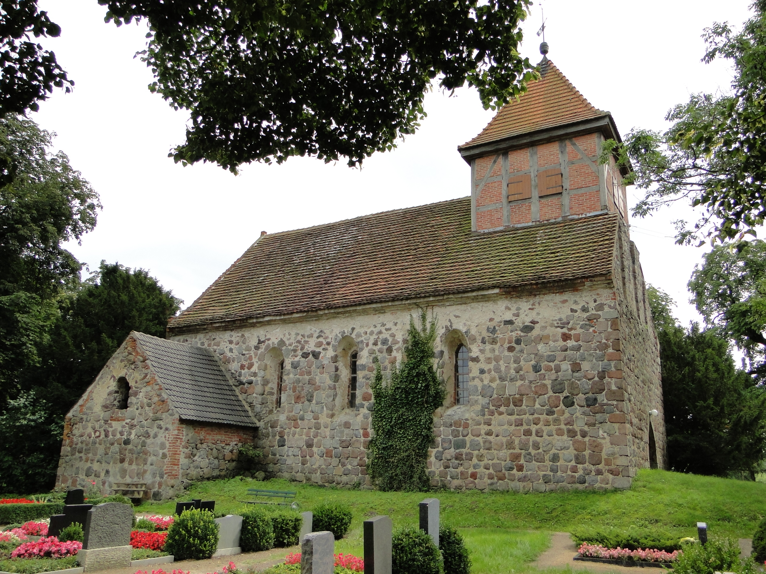 Church in Jatzke, district Mecklenburg-Strelitz, Mecklenburg-Vorpommern, Germany